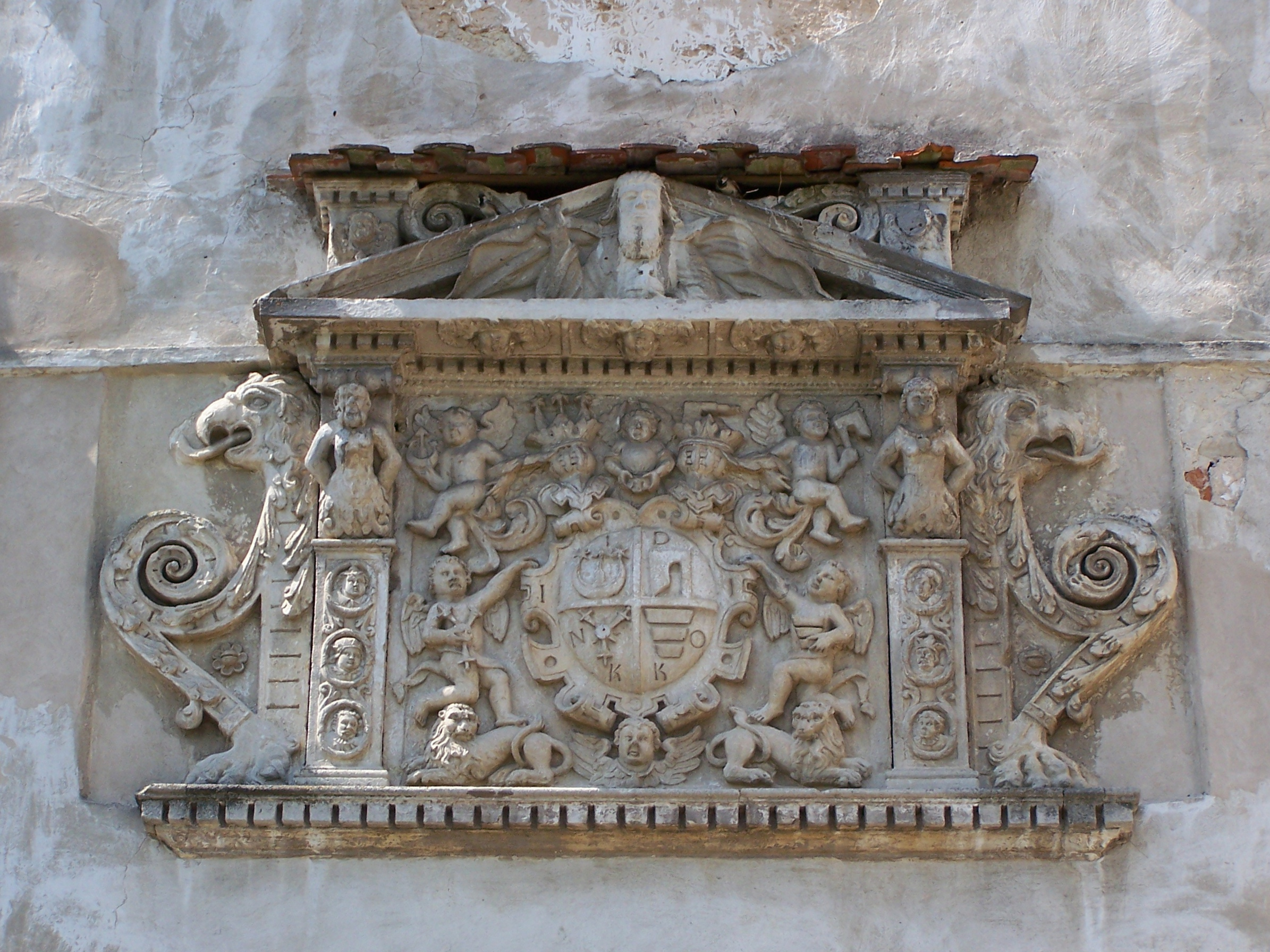 Sas, Topór, Herburt and Korczak coats of arms in Olesko castle main gate. Coat of arms of Jan Daniłowicz h. Sas (landowner in 1605), from his mother Katarzyna Tarło/wa h. Topór, and his grandmothers Katarzyna Odnowski/a h. Herburt, and Regina Malczycki/a h. Korczak. The castle in Olesko (Ukraine).